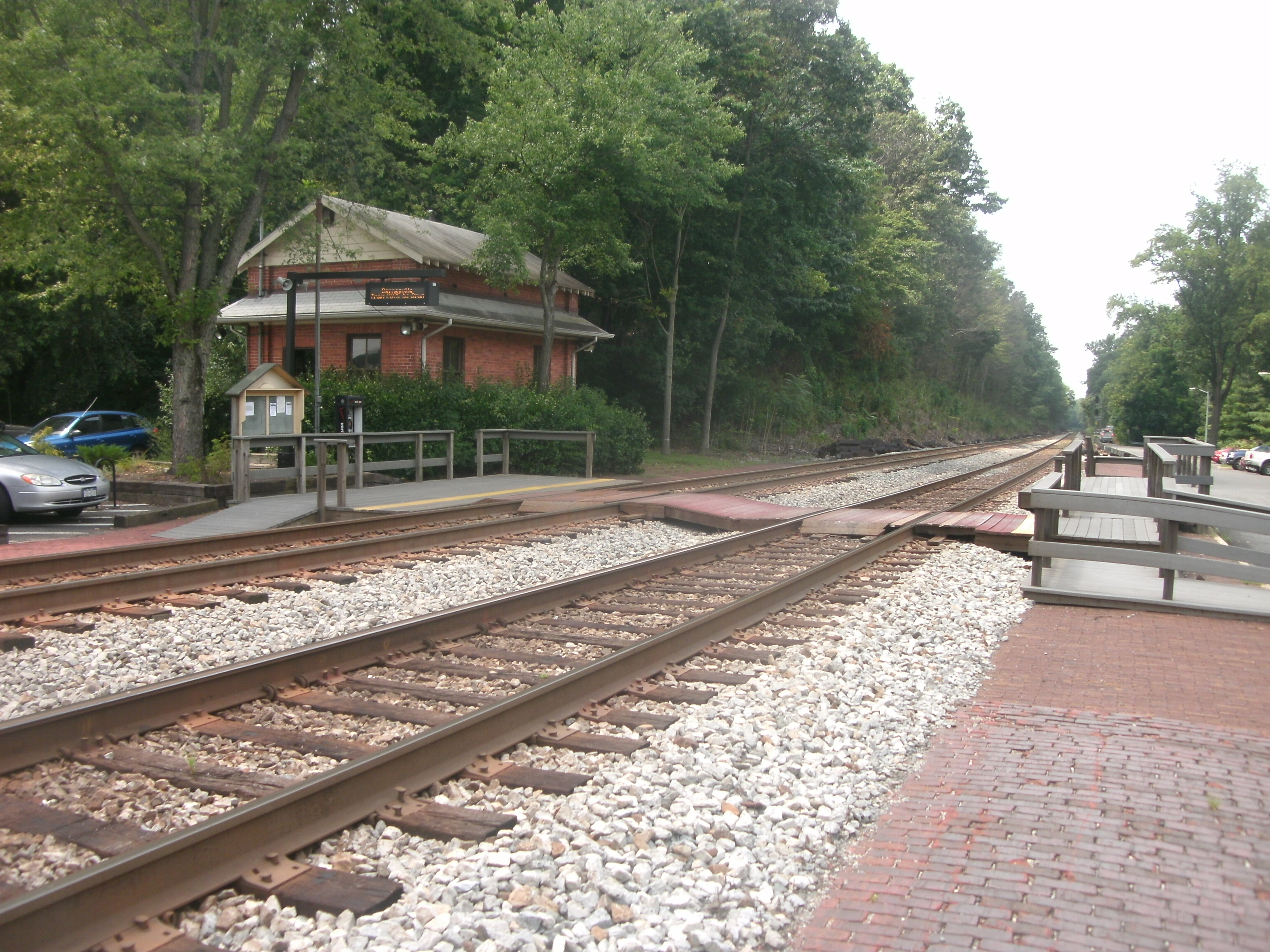 The Barnesville station facing the shelter on the Washington-bound platform from the Martinsburg-bound platform.